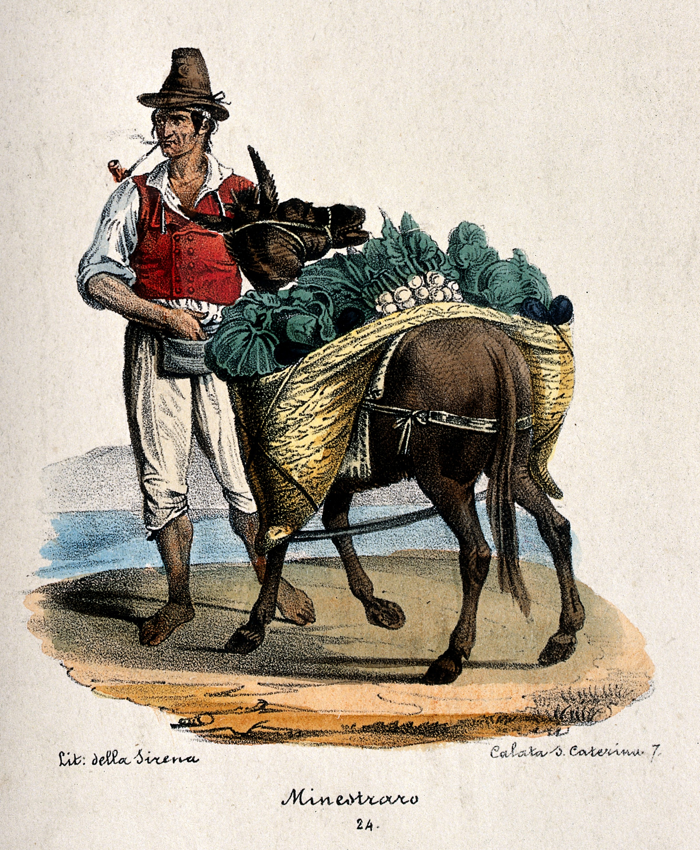 A street trader has the panniers on his donkey loaded with vegetables. Colour lithograph by Sirena. Iconographic Collections